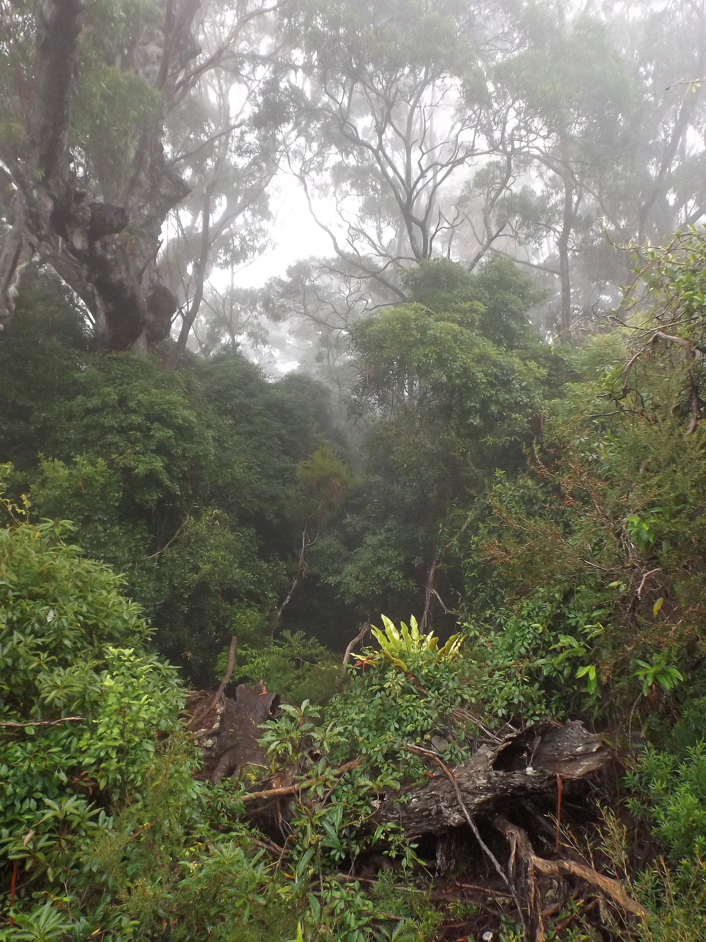 Photo of mist and rainforest at a lookout on Old School Road in Springbrook National Park, Springbrook, City of Gold Coast, Queensland, Australia.